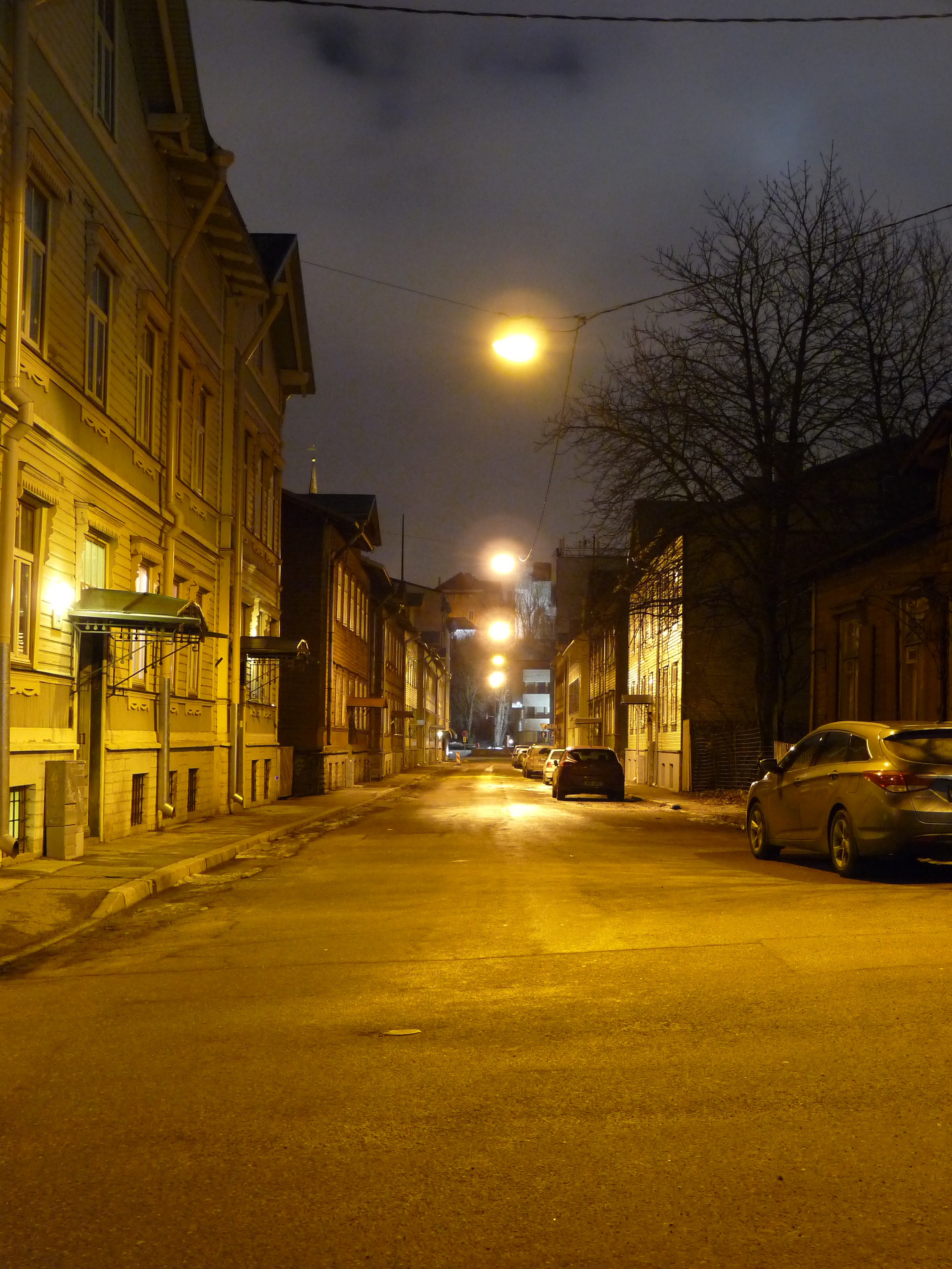 Sügise street in Tallinn, Estonia